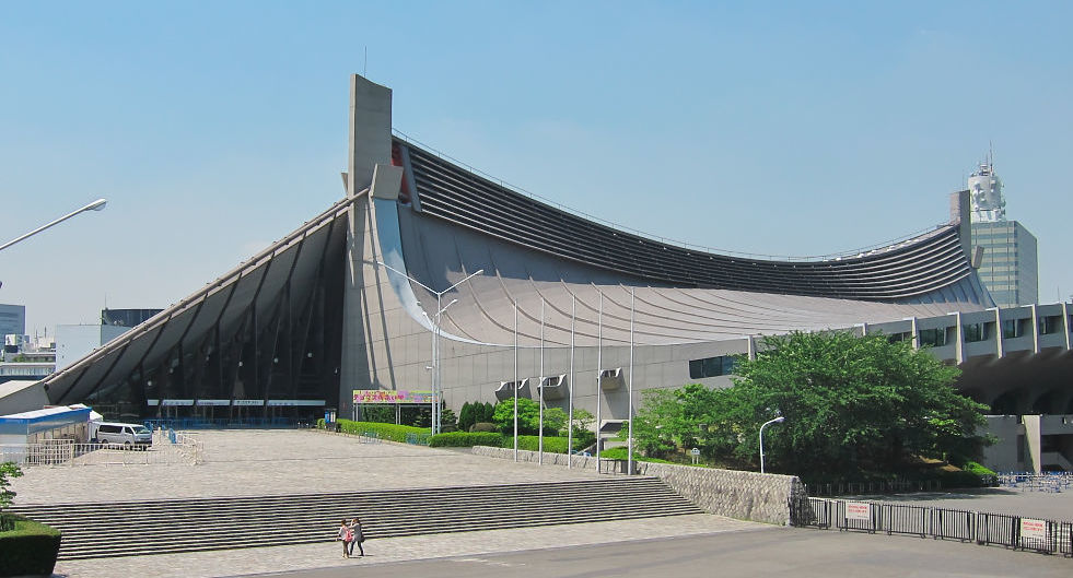 Yoyogi National Gymnasium (1st gymnasium) in Shibuya, Tokyo.